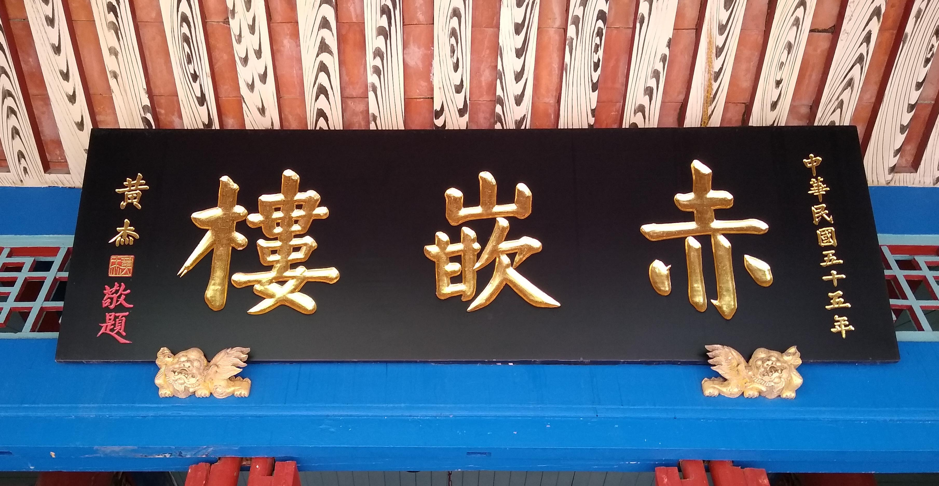 The characters "赤嵌樓" inscribed at Chihkan Tower (the southern tower, 海神廟) in Tainan.